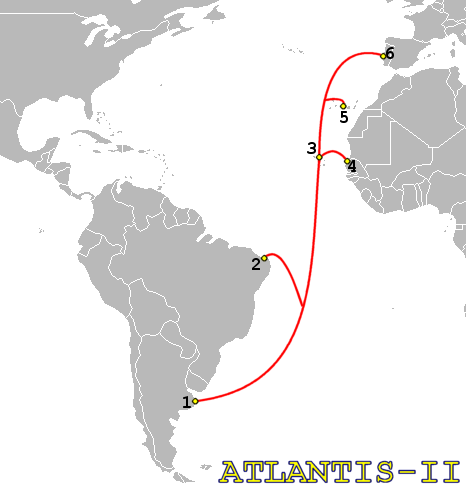 Map of the ATLANTIS-2ATLANTIS-II submarine communications cable. For more information regarding numbered Landing points, see the main article. Summary Map of the ATLANTIS-II submarine communications cable. For more information regarding numbered Landing points, see the main article.